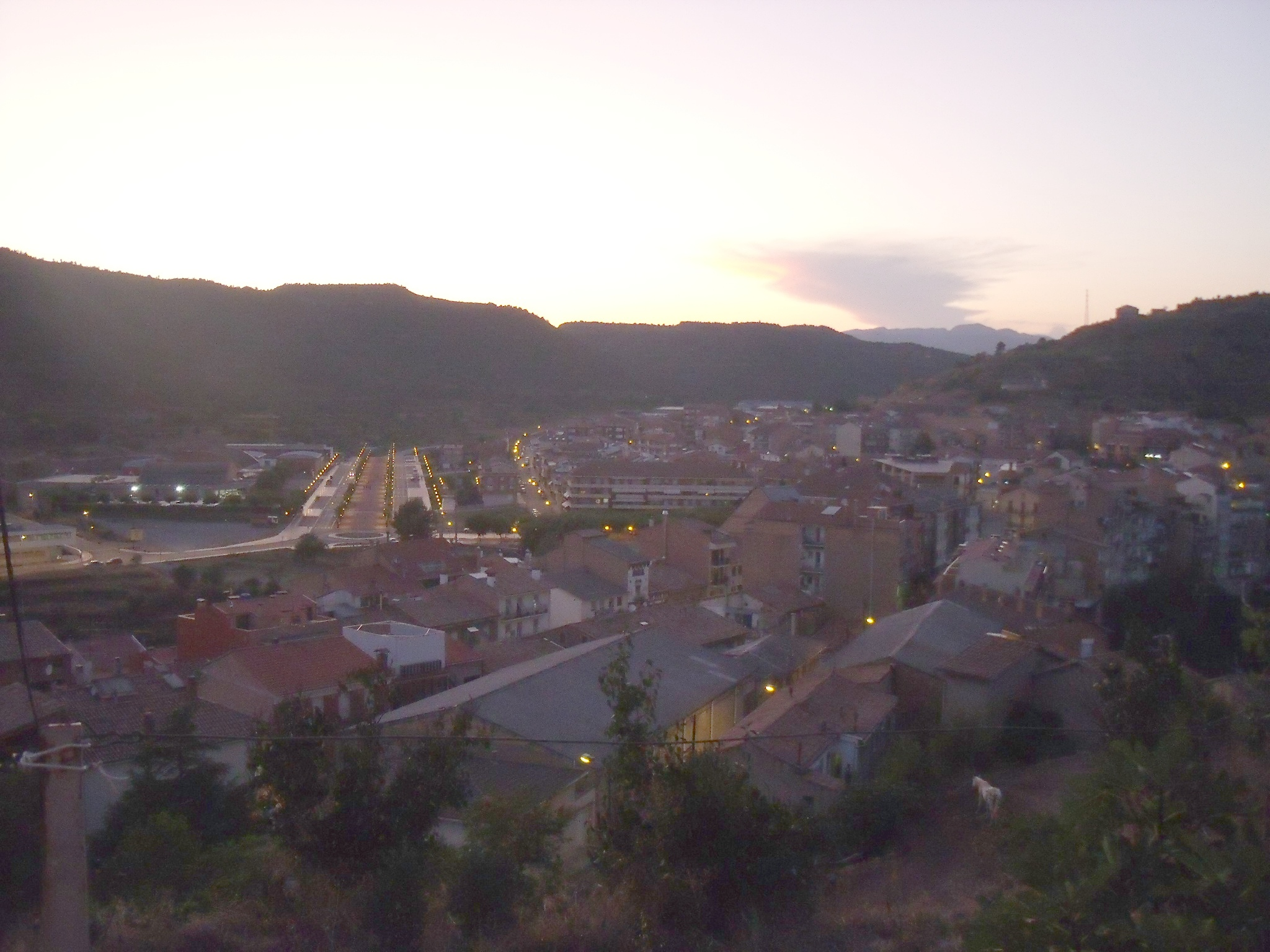 A view of the town of Puig-reig (Berguedà, Catalonia), from its castle.